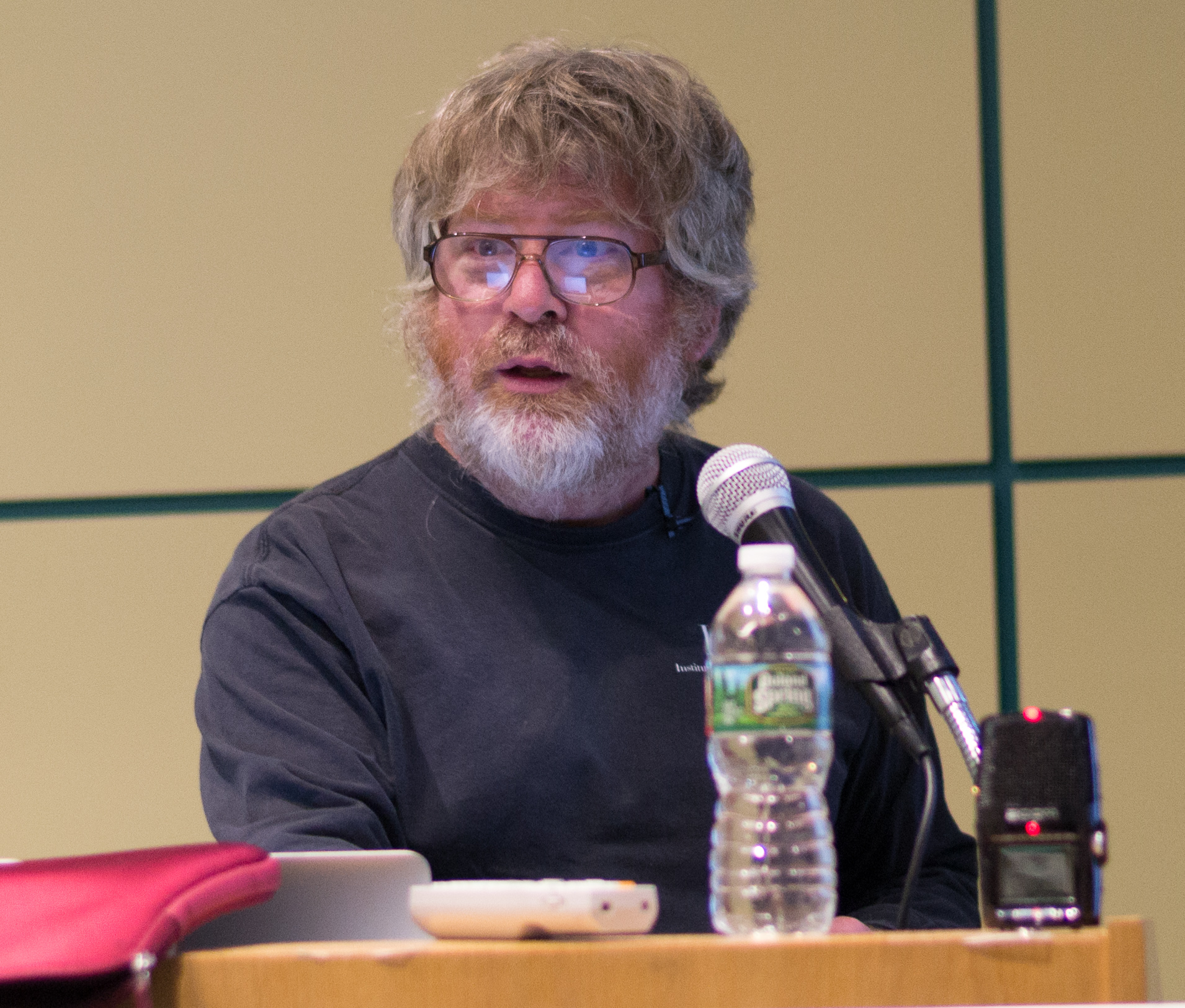 American computer scientist Russell Impagliazzo presenting a lecture at the DIMACS Workshop on Cryptography and its Interactions, July 13, Rutgers University, USA.